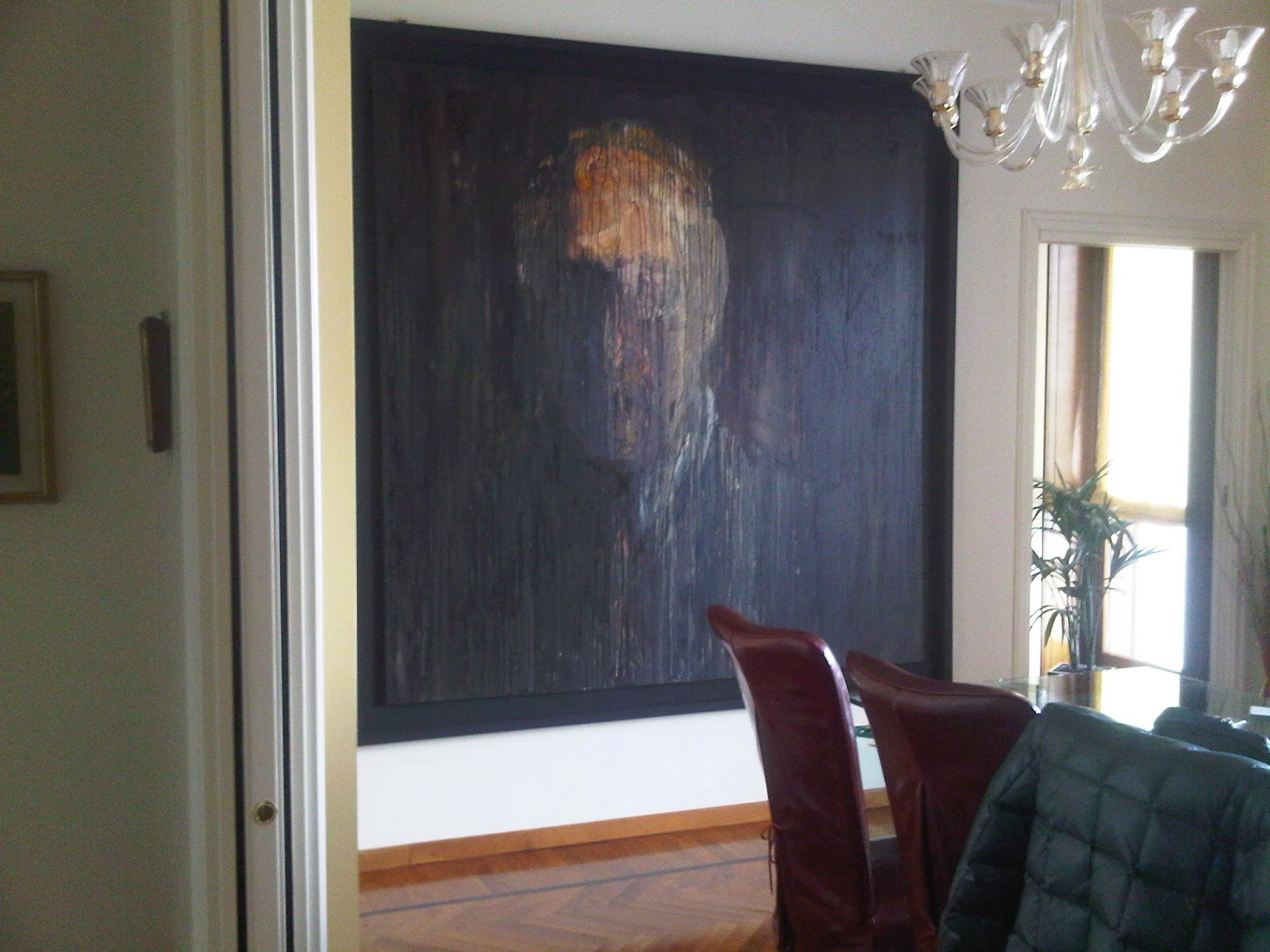 This is a photo of the portrait made a couple of years ago